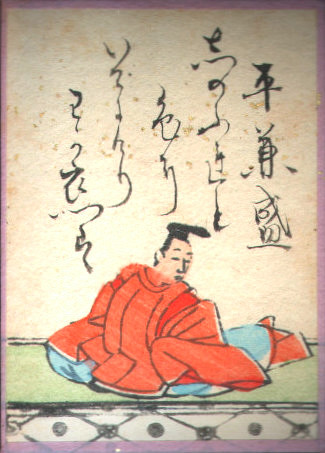 A portrait of Taira no Kanemori; illustration from an uta-garuta playing card for Hyakunin Isshu, created in the Edo period.